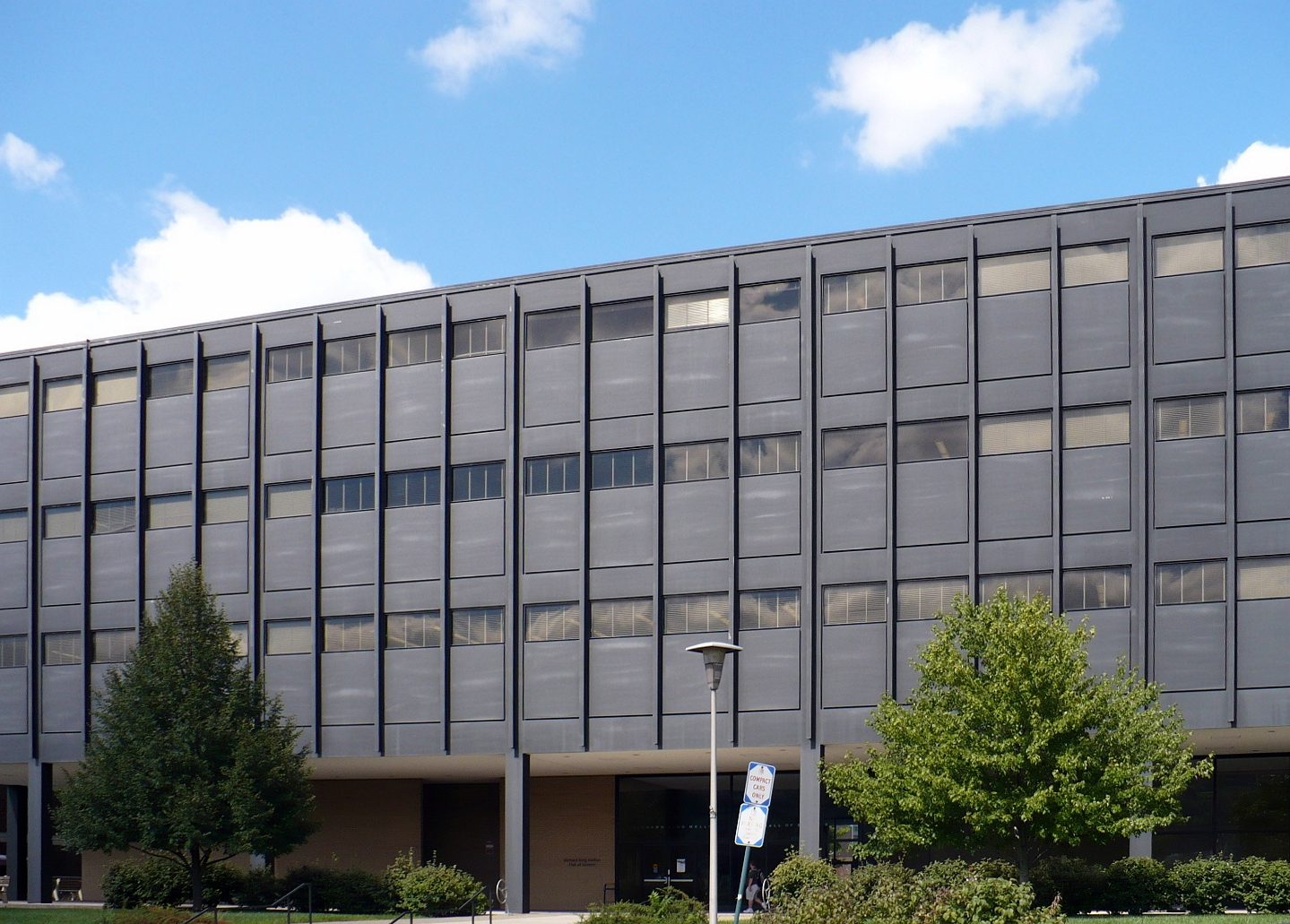 The Richard King Mellon Hall of Science at Duquesne University. (Architecture by Ludwig Mies van der Rohe, 1968)